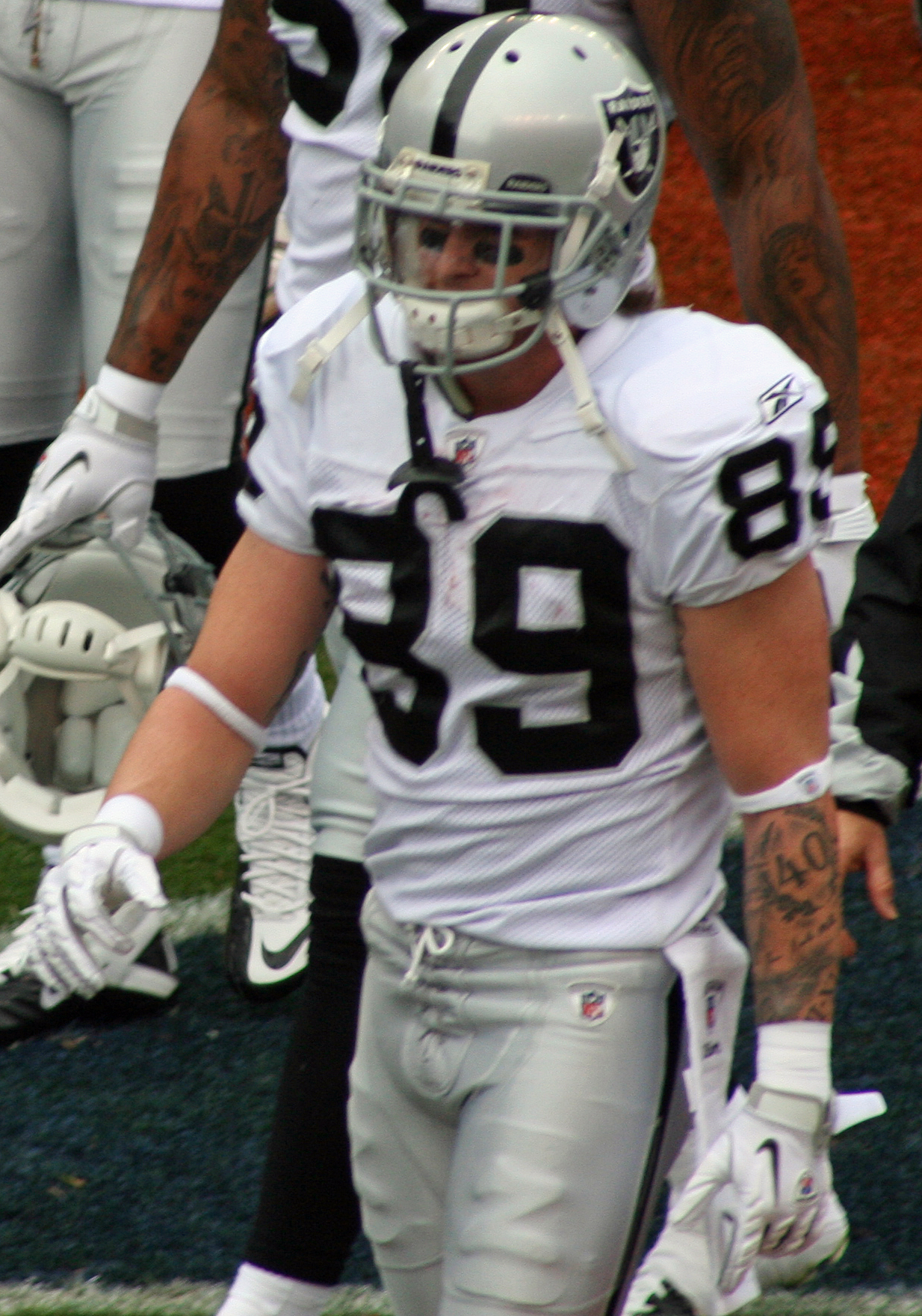 Nick Miller, a player on the Oakland Raiders American football team.